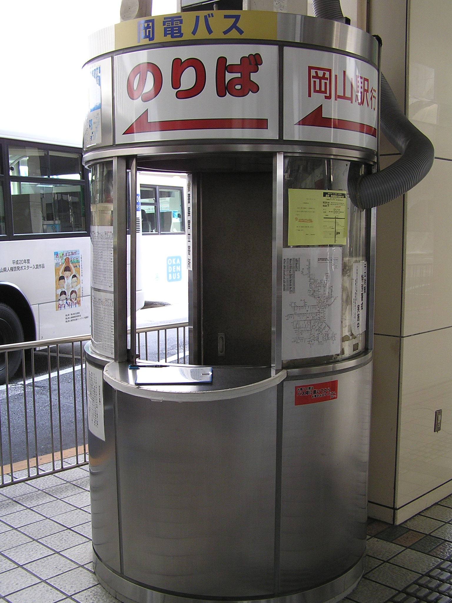 Information box at Omote-cho Bus station,Okayama